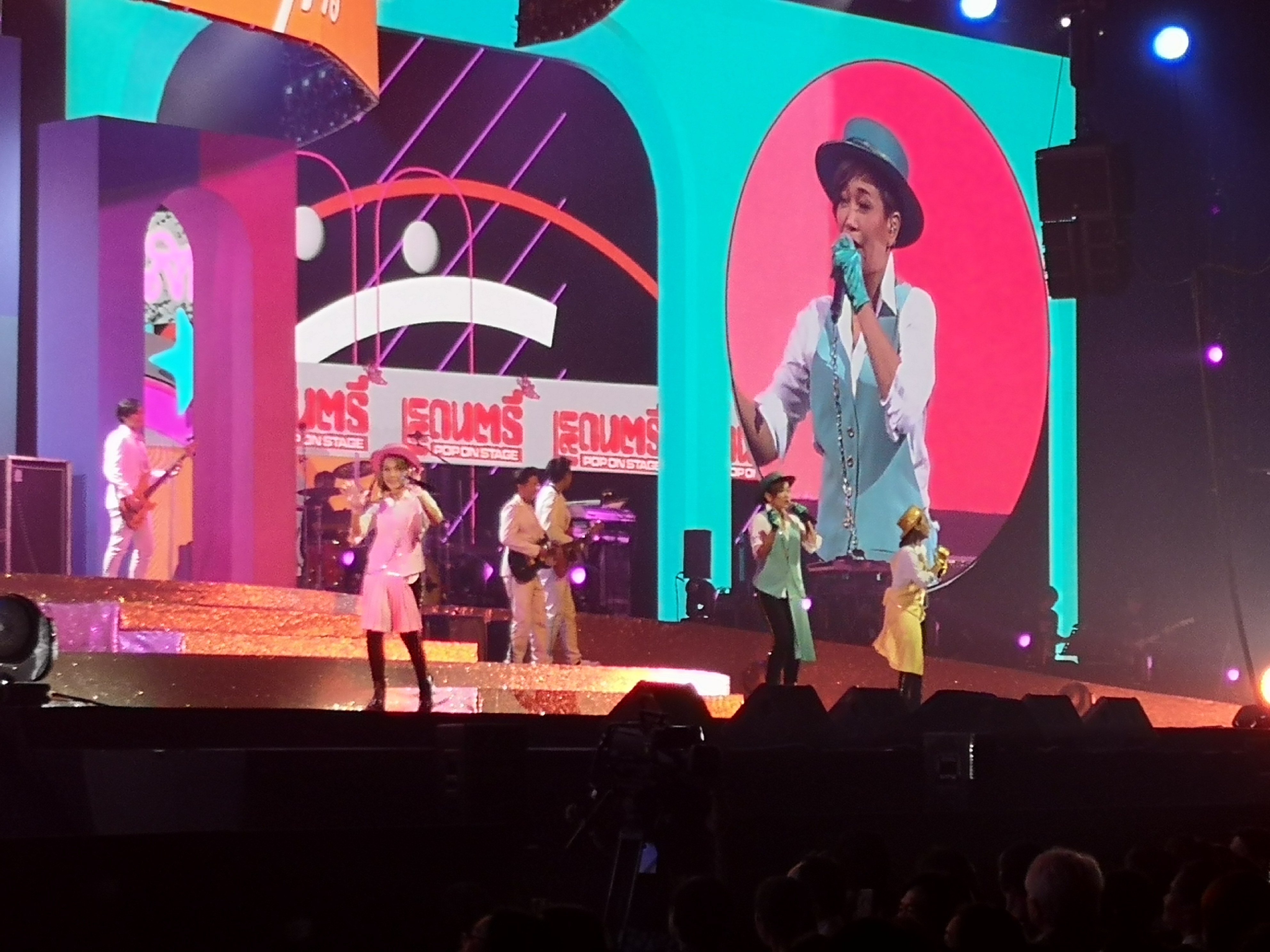 Sao Sao Sao concert